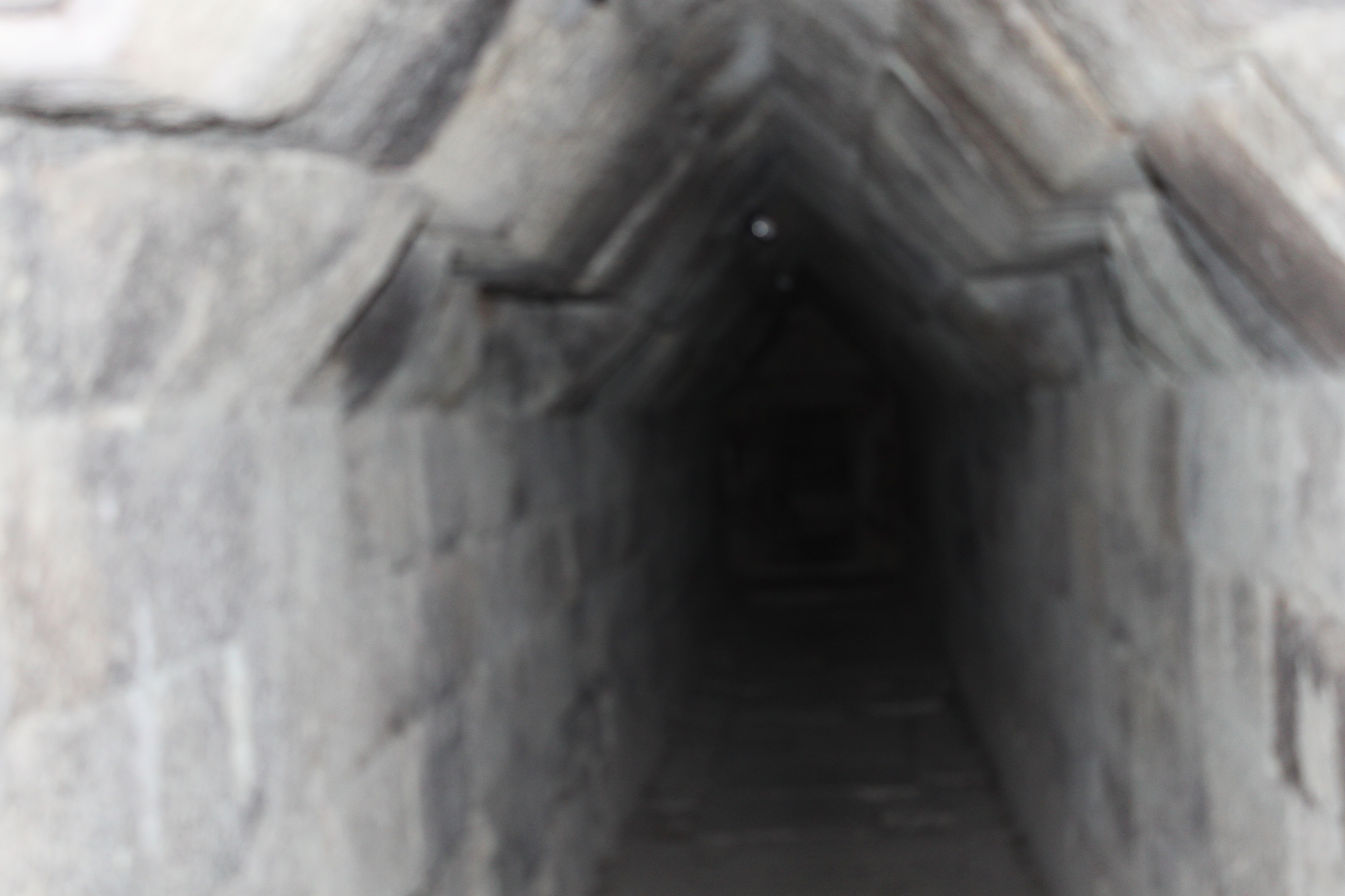 7 Cat Thracian tomb near Mezek, in the Rhodope Mountains, Bulgaria